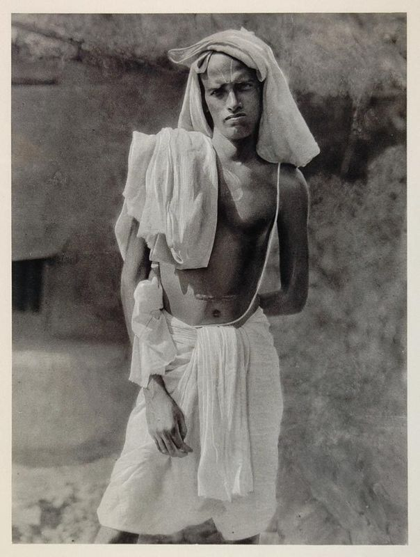 Portrait of a Brahmin Hindu Priest in Puri, Orissa